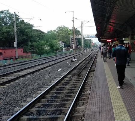 Tollygunge Railway Station